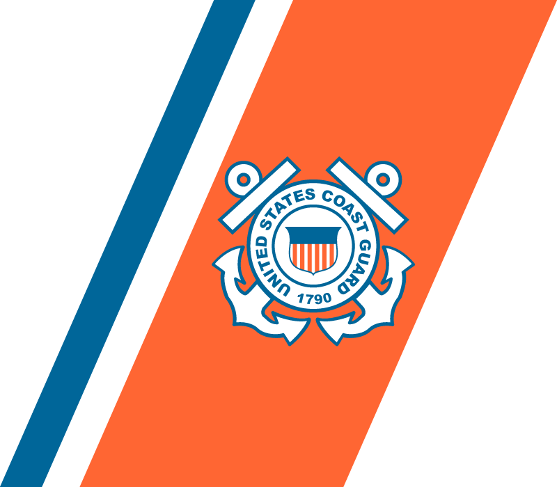 U.S. Coast GuardOfficial Mark - "Racing Stripe"Websafe Colors